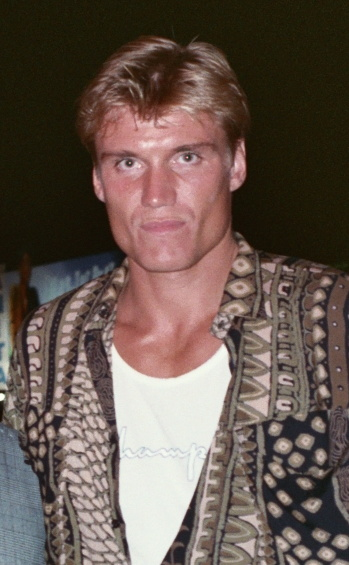 Dolph Lundgren taken at the AIR AMERICA movie premiere 1990